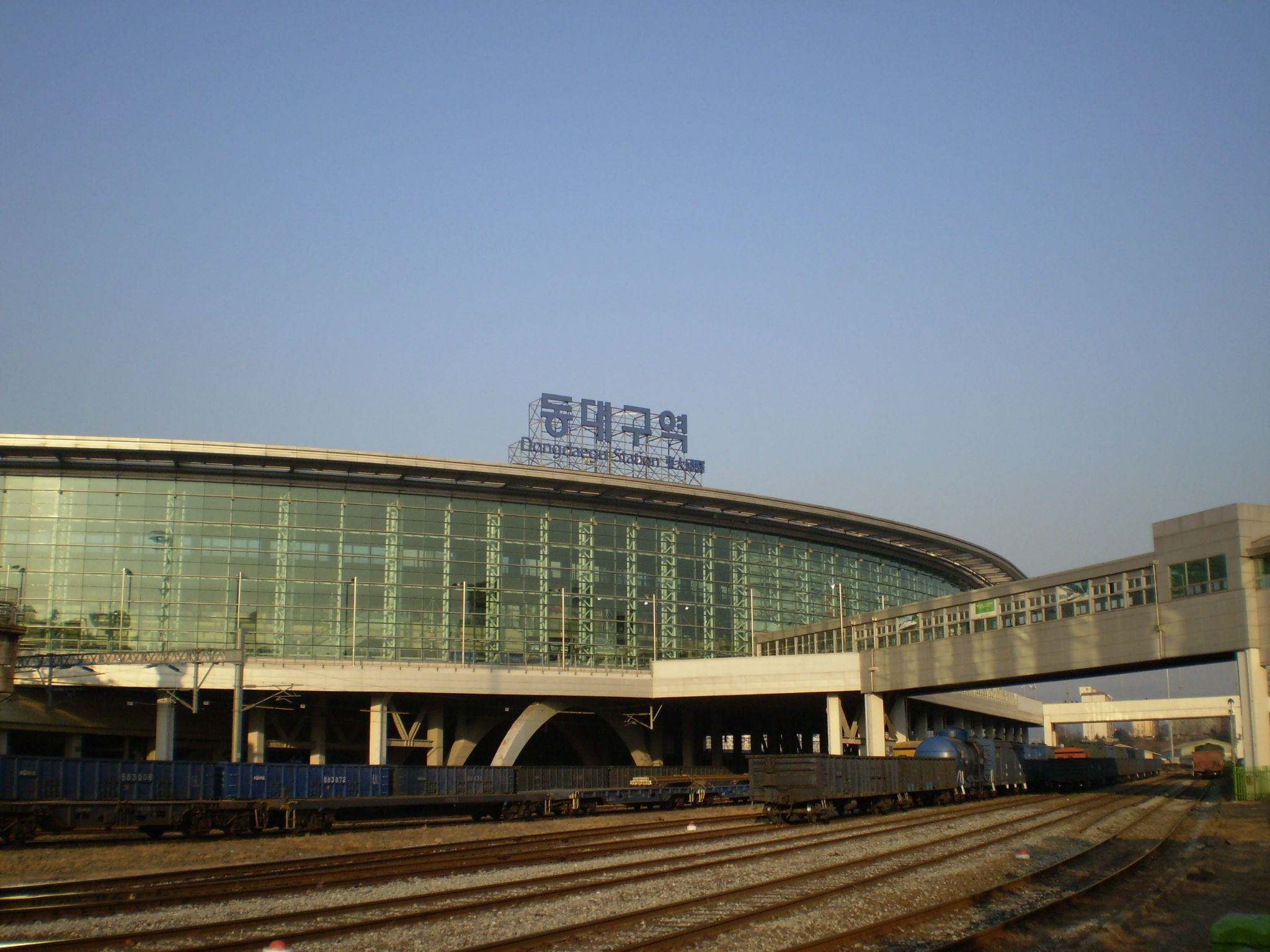 View across the tracks at Dongdaegu Station in Daegu, South Korea.